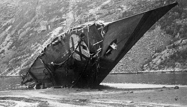 The German Zerstörer 1934A class destroyer Z11 Bernd von Arnim beached and scuttled in the fjord Rombaksbotn near Narvik in Norway.